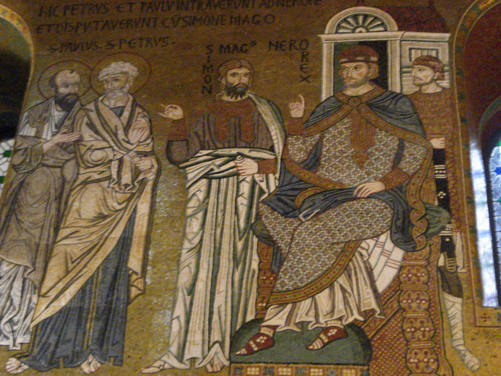 Peter, Paul, Simon Magus and Nero